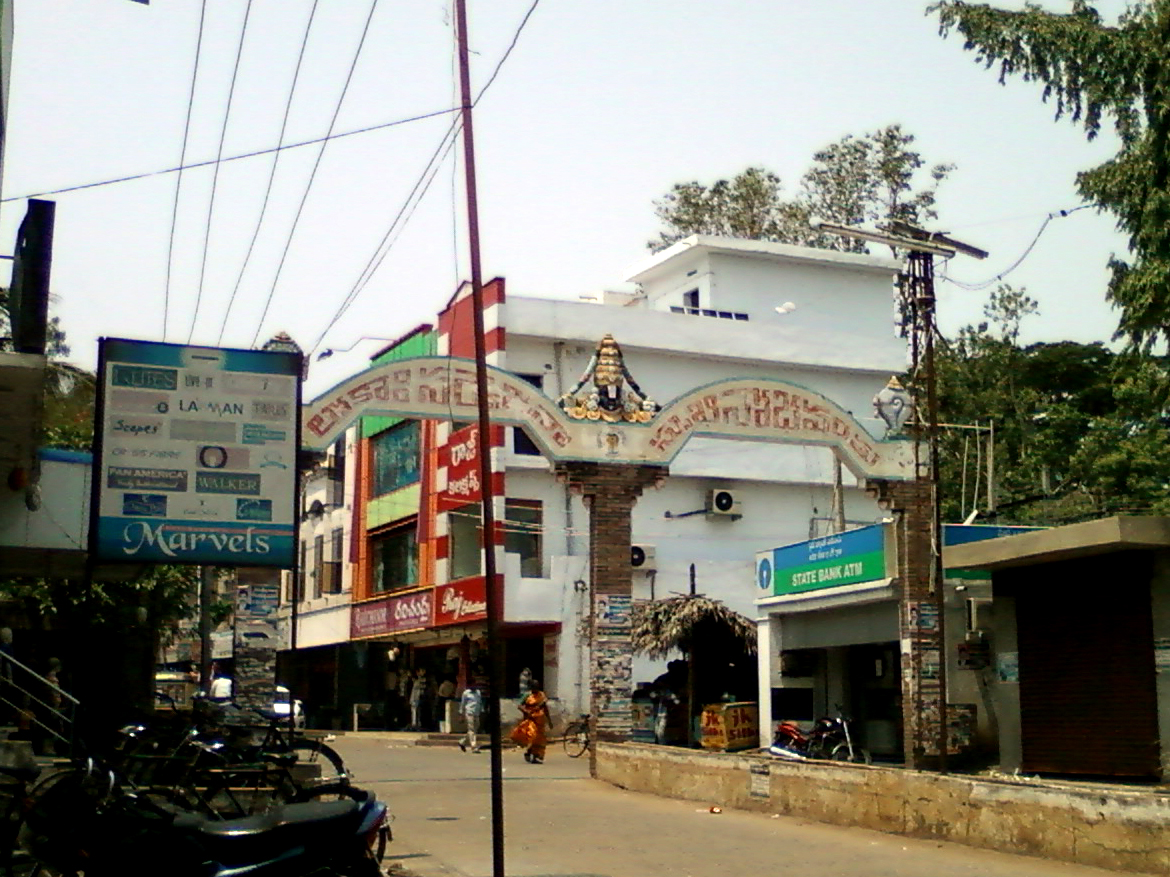 Balaji Textile Market Complex in Vizianagaram, Andhra Pradesh